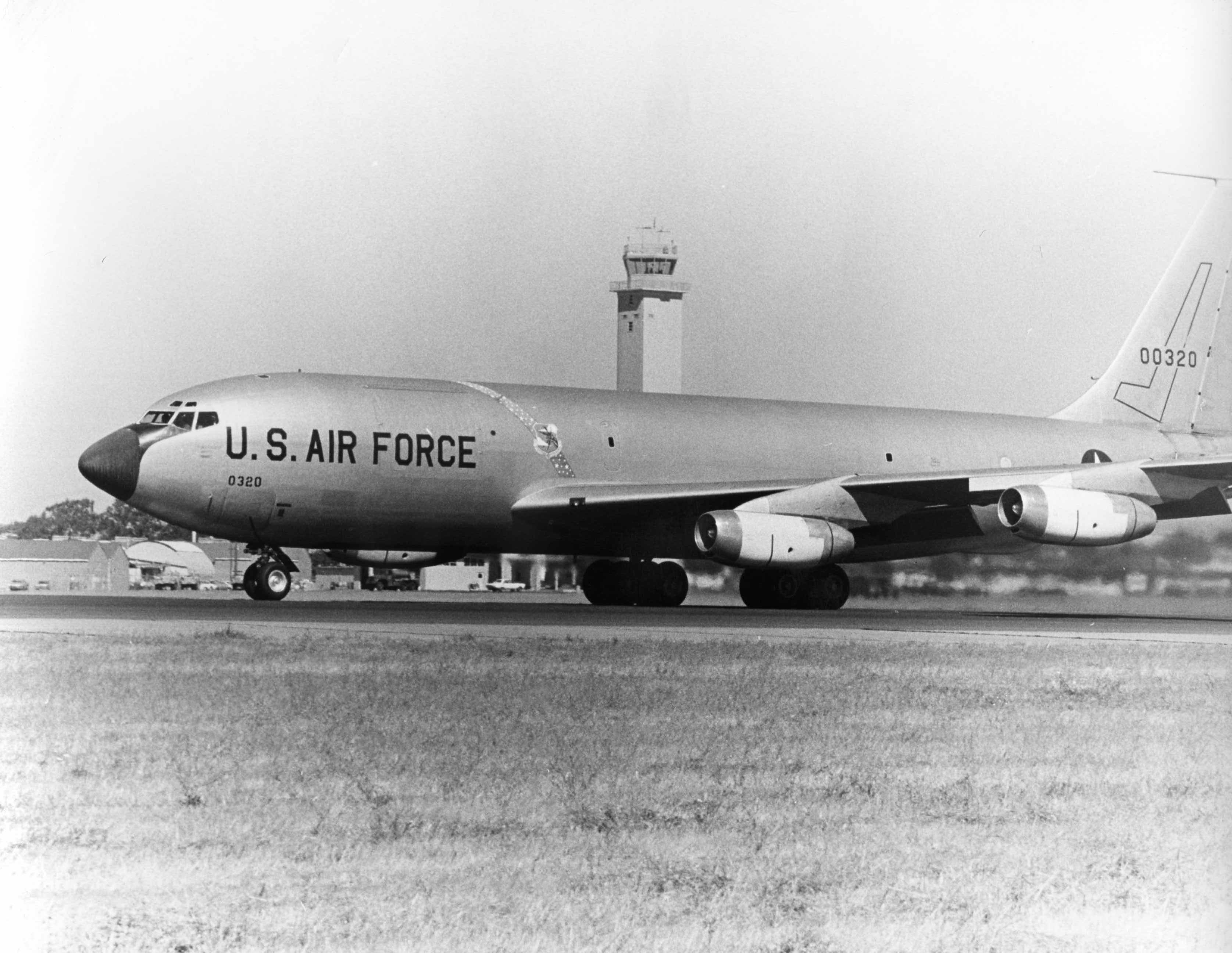 United States Air Force Boeing KC-135R Stratotanker 00320 originally 60-0320, c/n 18059/434, delivered to USAF in 1960-12-30. Converted in KC-135A in November 1981. Assigned to the 22nd Air Refuelling Wing at McConnell AFB.